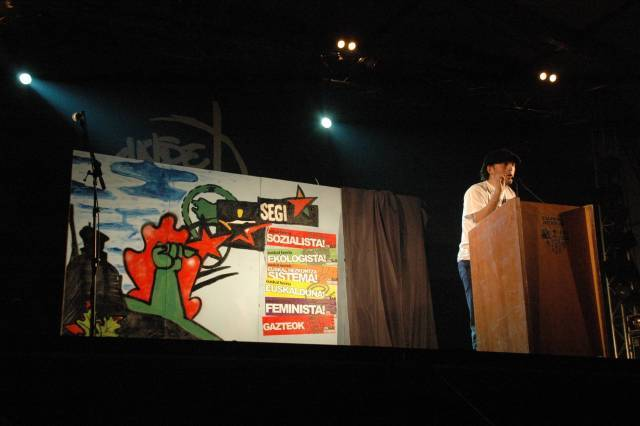 Gazte ekitaldia Gazte Martxaren bukaeran. Basque independentist left youth campaign final act.